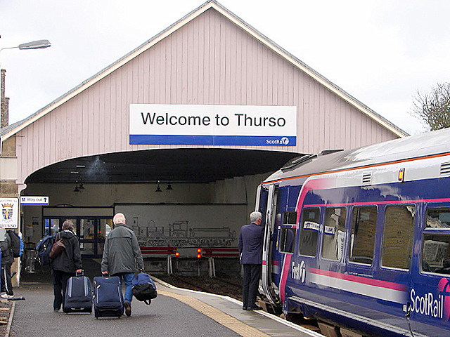 Welcome to Thurso Passengers at Thurso station, having just arrived on a Scotrail train from Inverness. Thurso is the most northerly station on the British railways network. The train working on the far north line is interesting. Each train passes through Georgemas Junction twice in each direction. On arrival at Georgemas Jcn. from Inverness, the train reverses and travels to Thurso. It then returns to Georgemas and onto Wick. In the reverse direction, trains travel from Wick to Georgemas, then to Thurso, back to Georgemas and then onto Inverness. I wonder if this occurs on any other route in the UK? In the days when trains on the line were locomotive hauled, there were always two locomotives. On arrival at Georgemas, the trains were split and each locomotive took a section to Wick and Thurso respectively.